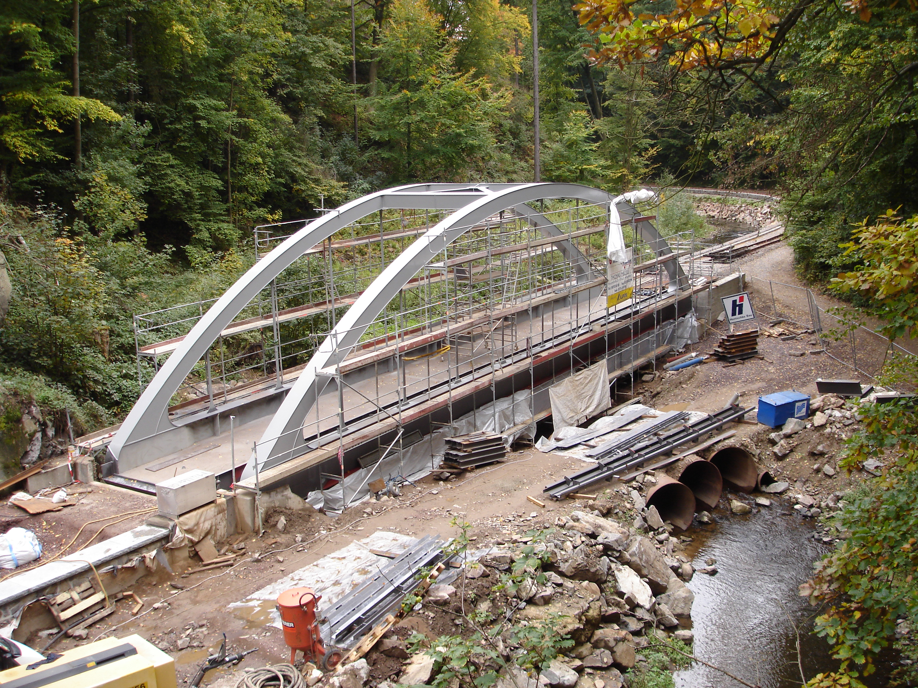 bridge in Rabenauer Grund, Weißeritztalbahn, Saxony, Germany